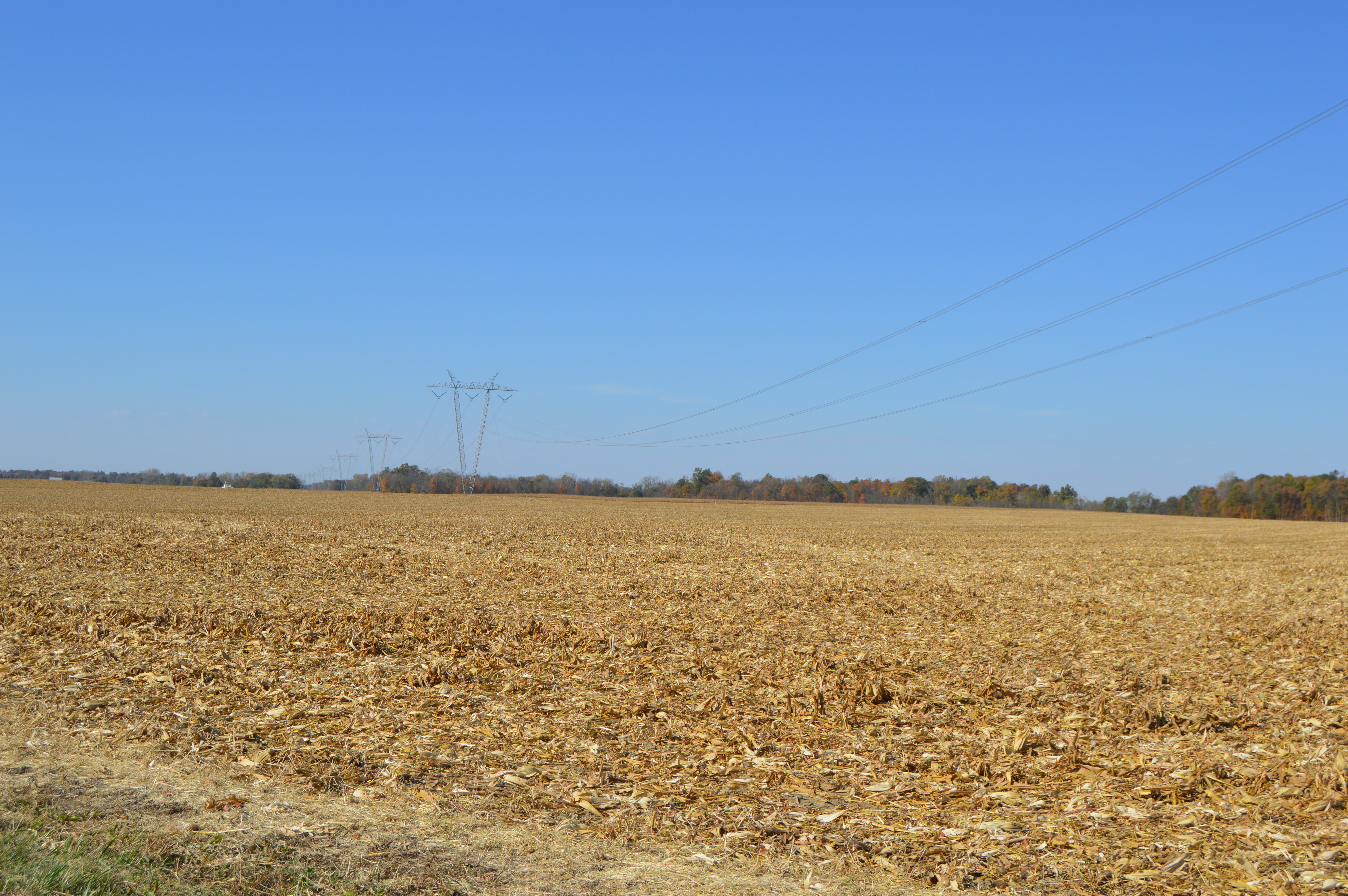 Looking northwest from Township Road 36 west of County Road 134 south of Sycamore in Sycamore Township, Wyandot County, Ohio, United States.